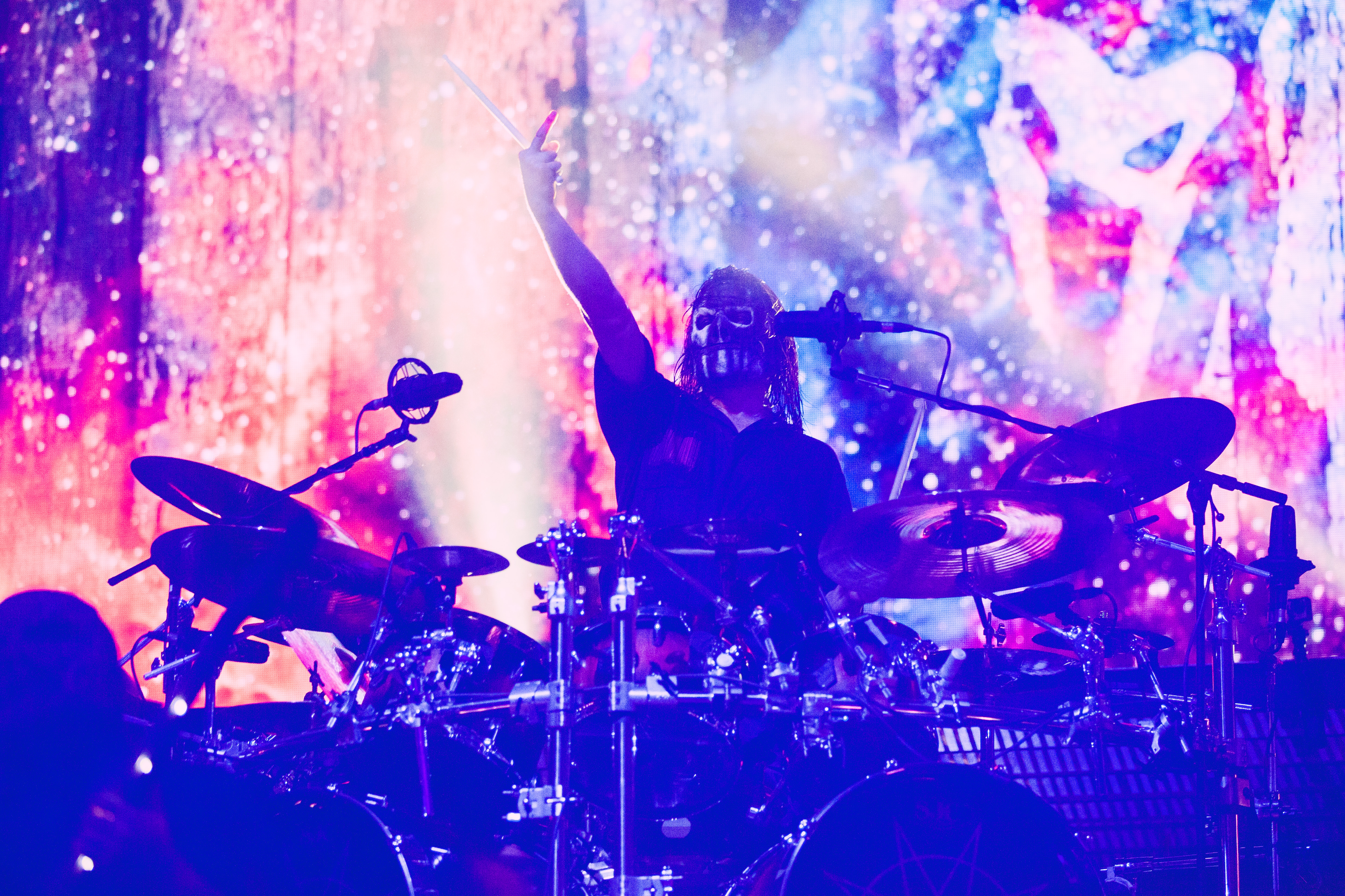 Slipknot on The Grey Chapter Tour (2016), ISS Dome, Düsseldorf (DEU) /// leokreissig.de for Wikimedia Commons